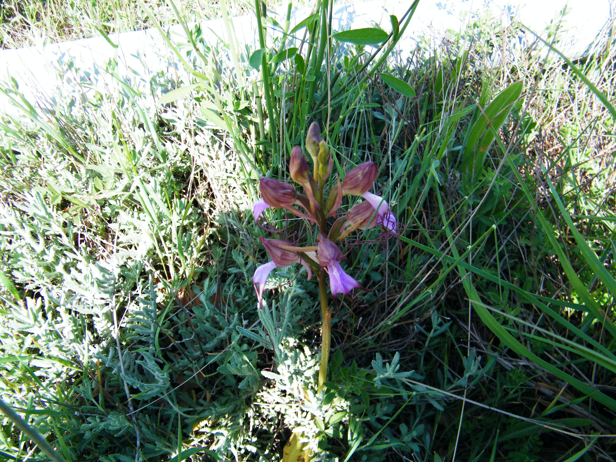 Comperia comperiana in Laspi Bay